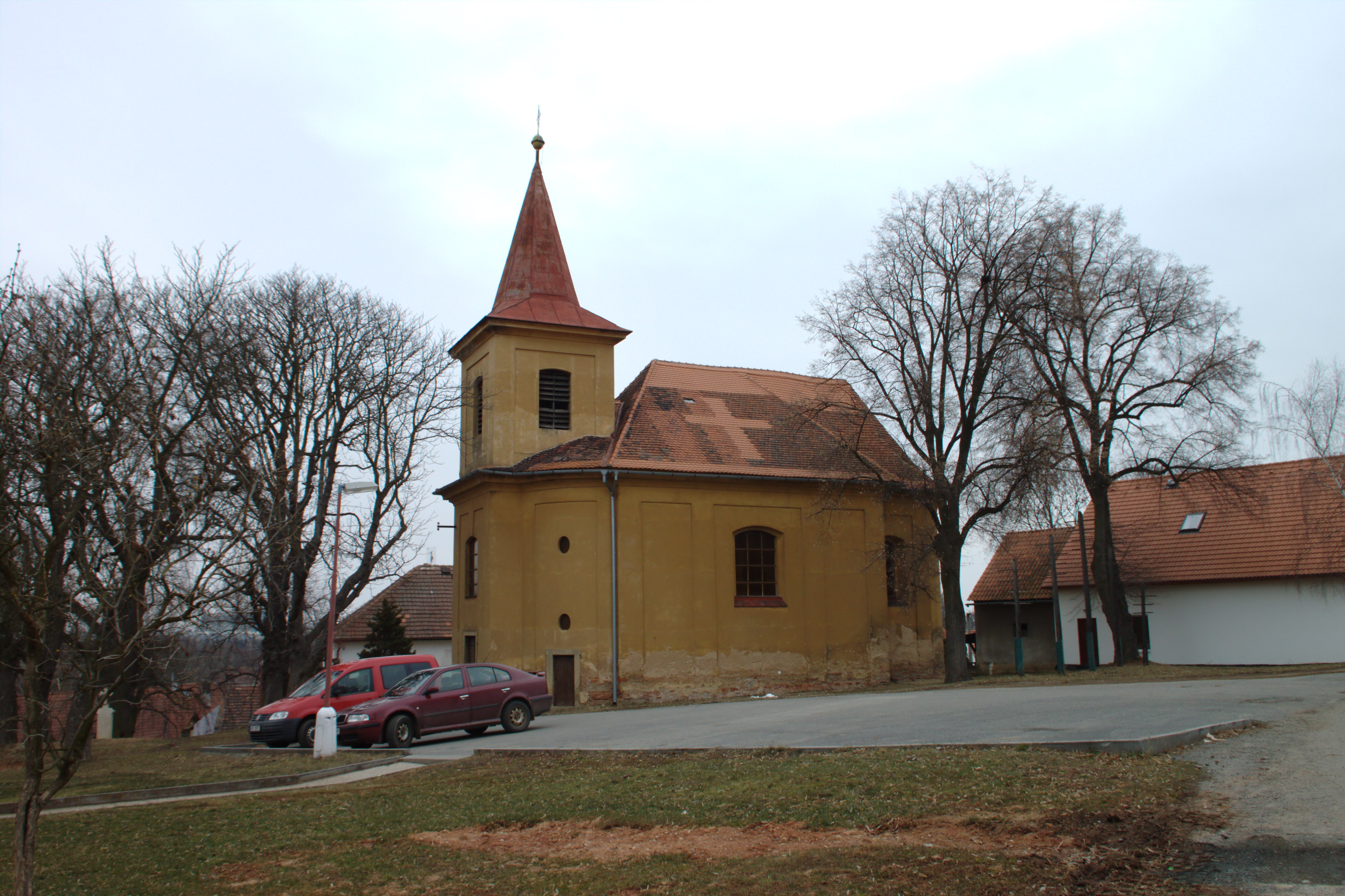 A church in the town of Lubná, Rakovník District